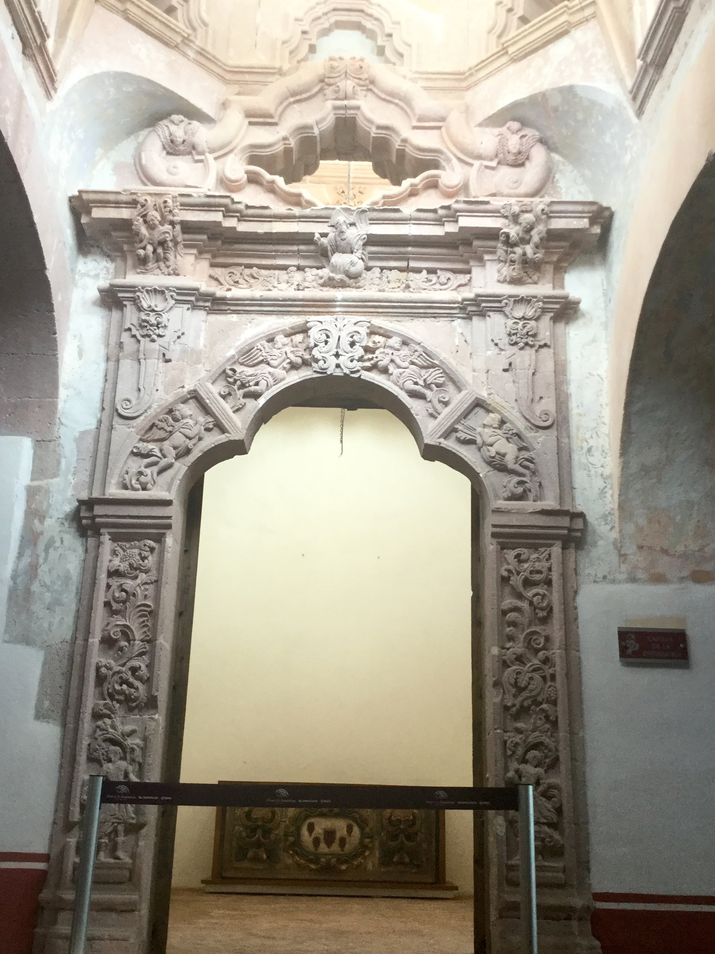 Fachada de la capilla de enfermería